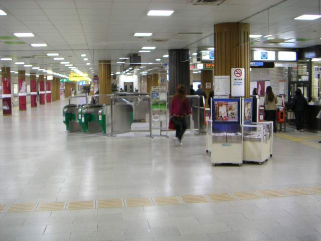 Concourse of Fukuoka municipal subway Tenjin station.